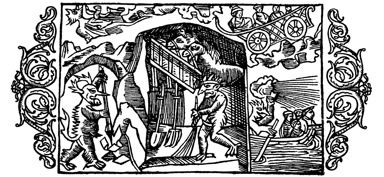 To the left a gnome who is cutting stones in the underground. In the middle a supernatural creature is working in a stable. At the bottom right corner a wind troll with passengers are going by boat without using sails. At the top left corner a witch riding backwards on a dragon. At the top right a coach is driving without horse.